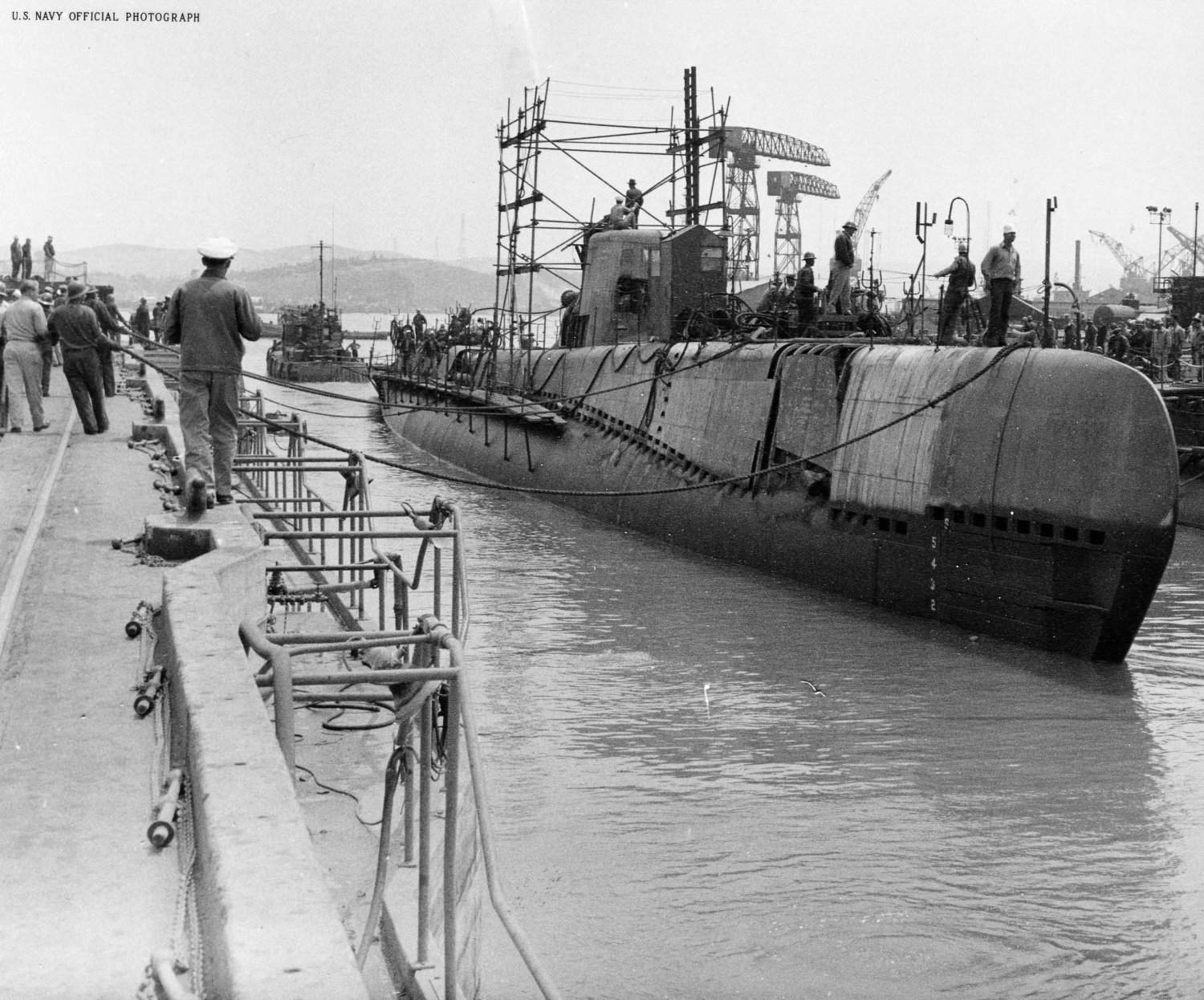 The U.S. Navy submarine USS Tiru (SS-416) is seen leaving dry dock #3 at Mare Island Naval Shipyard on 11 Aug 1948. She was being outfiitted at the yard after her delayed launching.